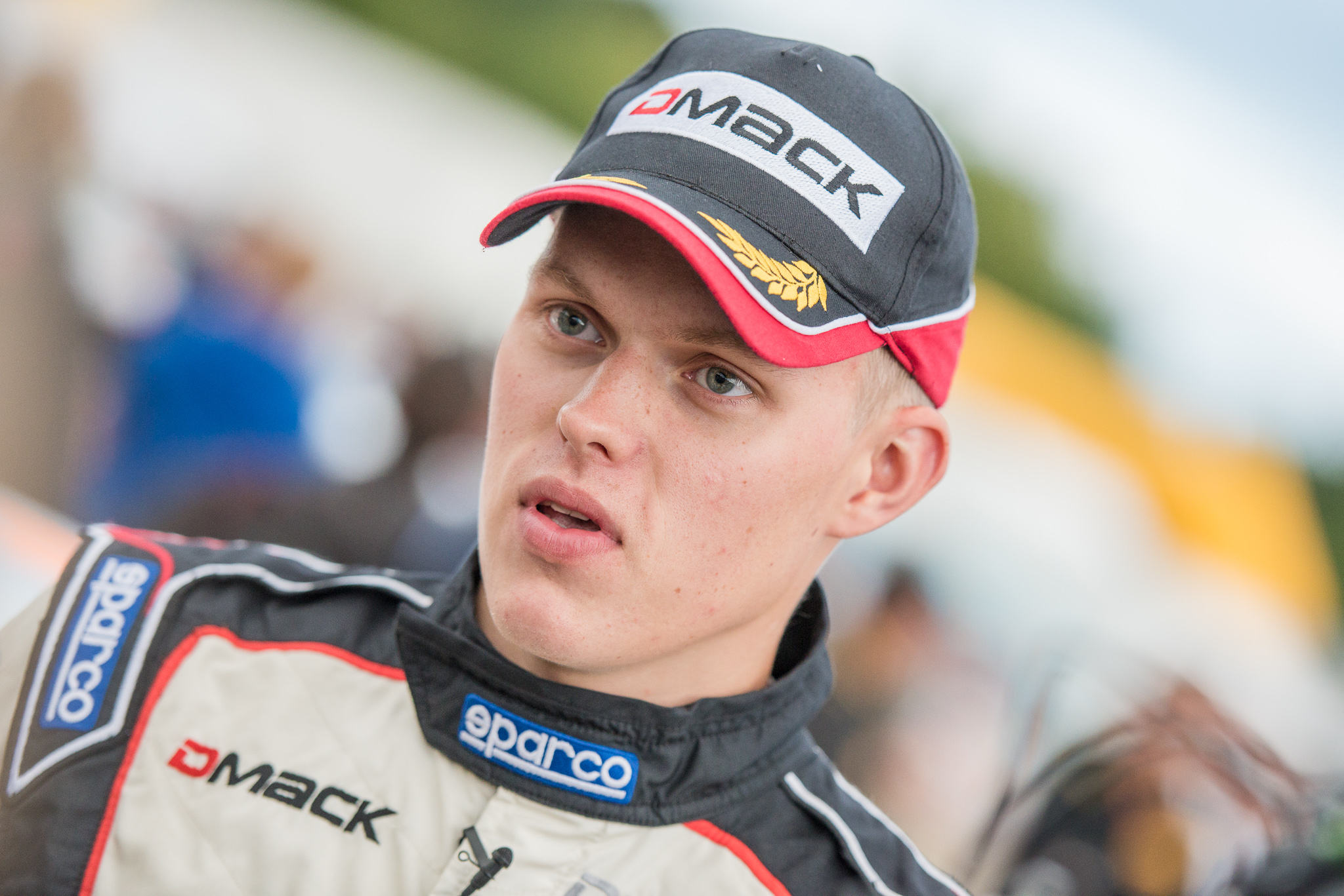 ADAC Rallye Deutschland 2014,Drive Dmack,FIA,FIA World Rally Championship,Motorsport,Ott Tanak,Ott Tänak,Rally,Rallye,WRC 2